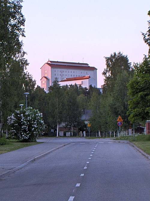 North Karelia Central Hospital in Joensuu, Finland